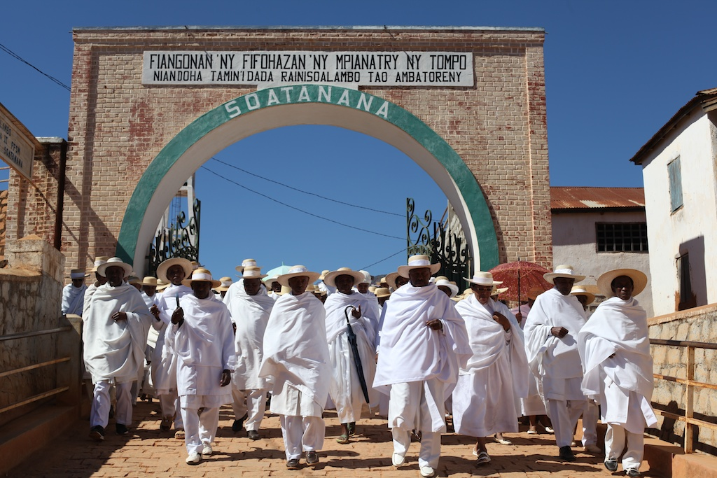 Soatanana (Madagascar) Procession